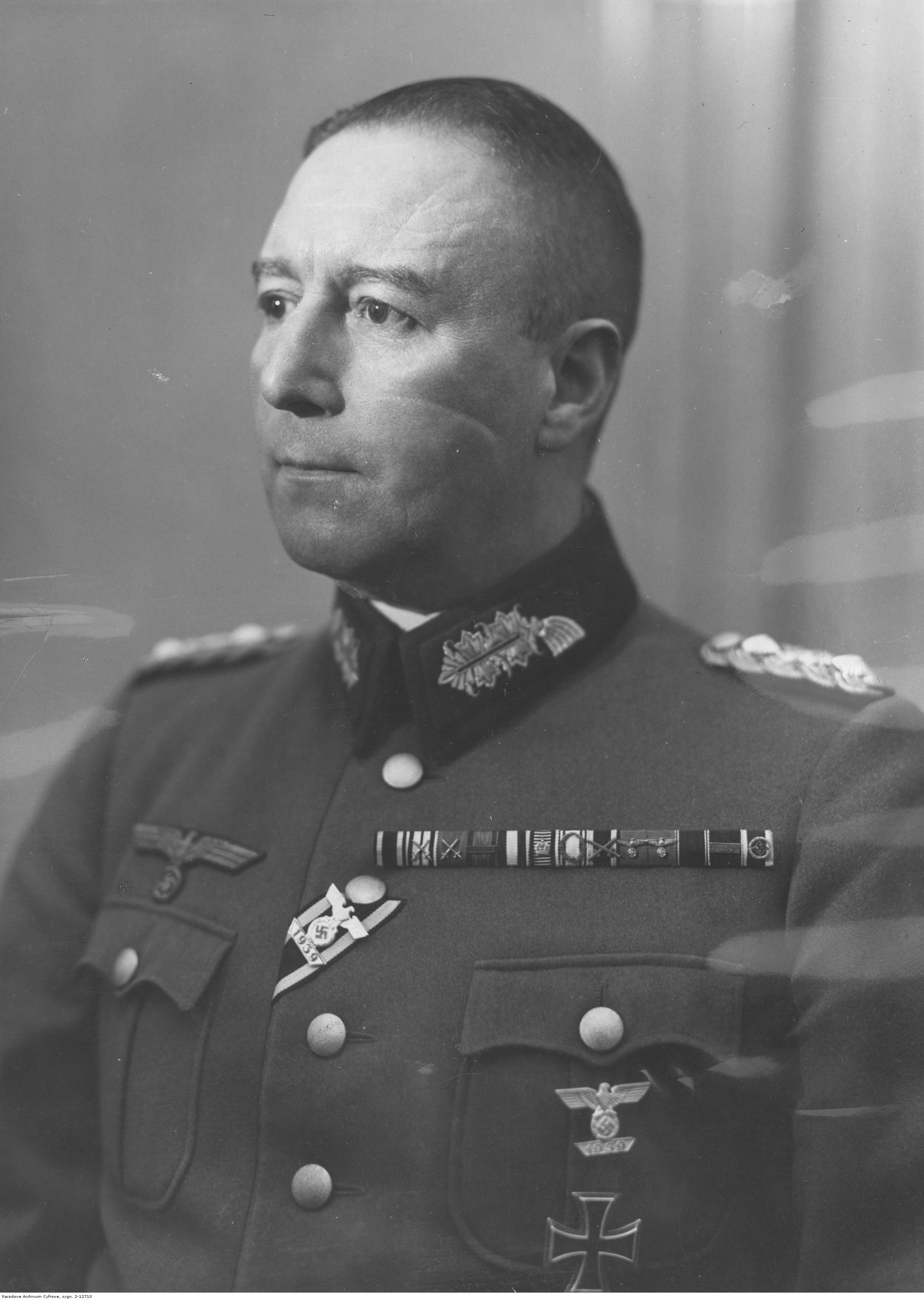 General of the medical corps Siegfried Handloser (1885-1954)